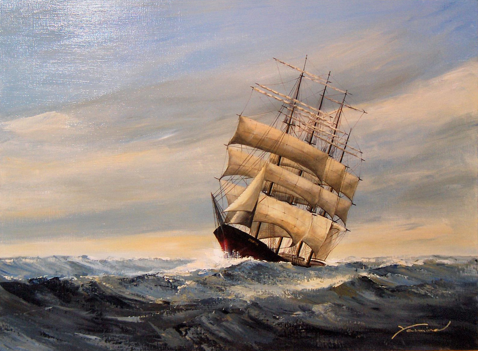 "Pamir", painting of the barque Pamir by Yasmina (1949- ), a Belgian painter specialized in marines and depictions of tall ships